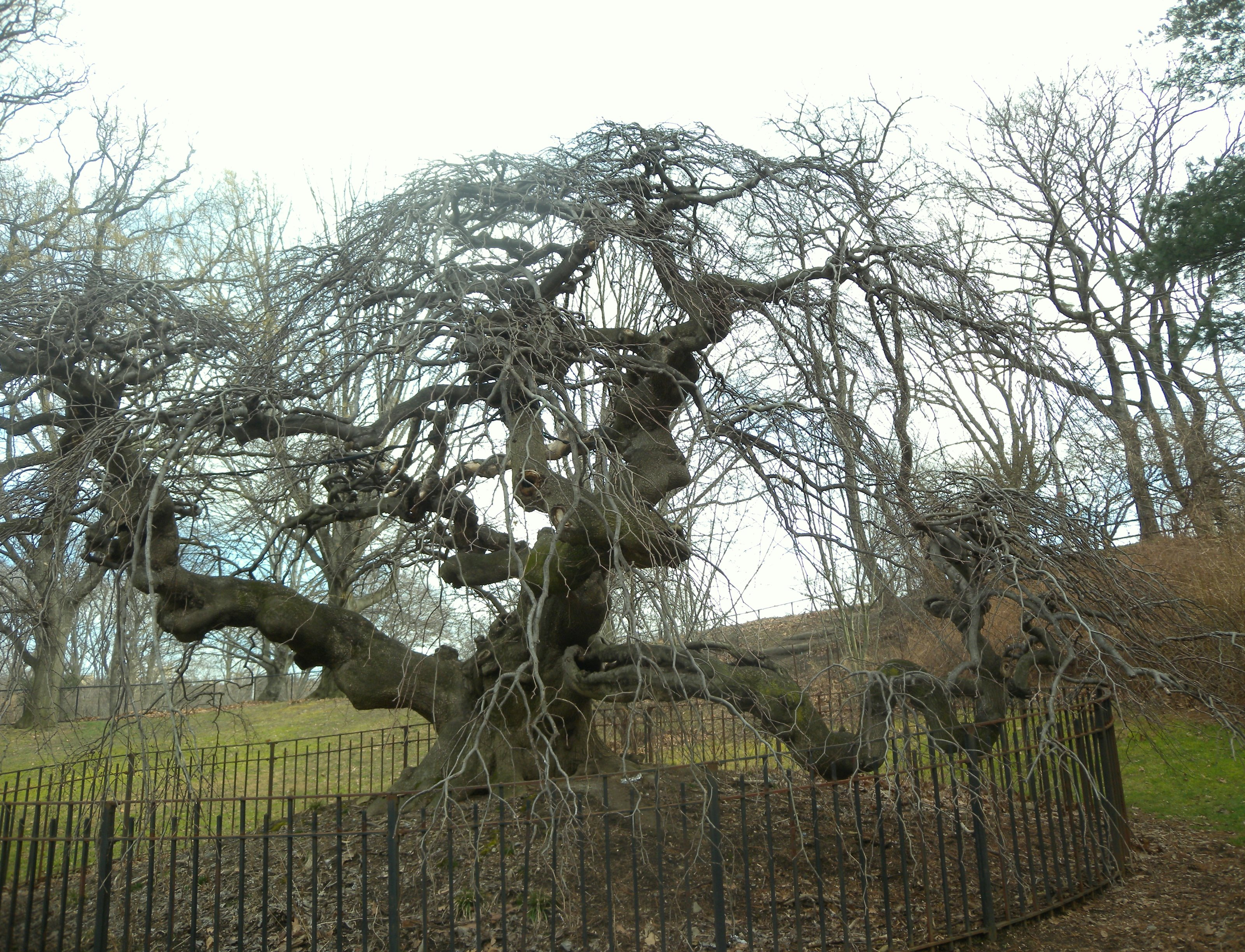 Looking east at mutant elm and North Lake Drive background, on a mostly cloudy winter day. EXIF location is mistaken due to photographer's error.